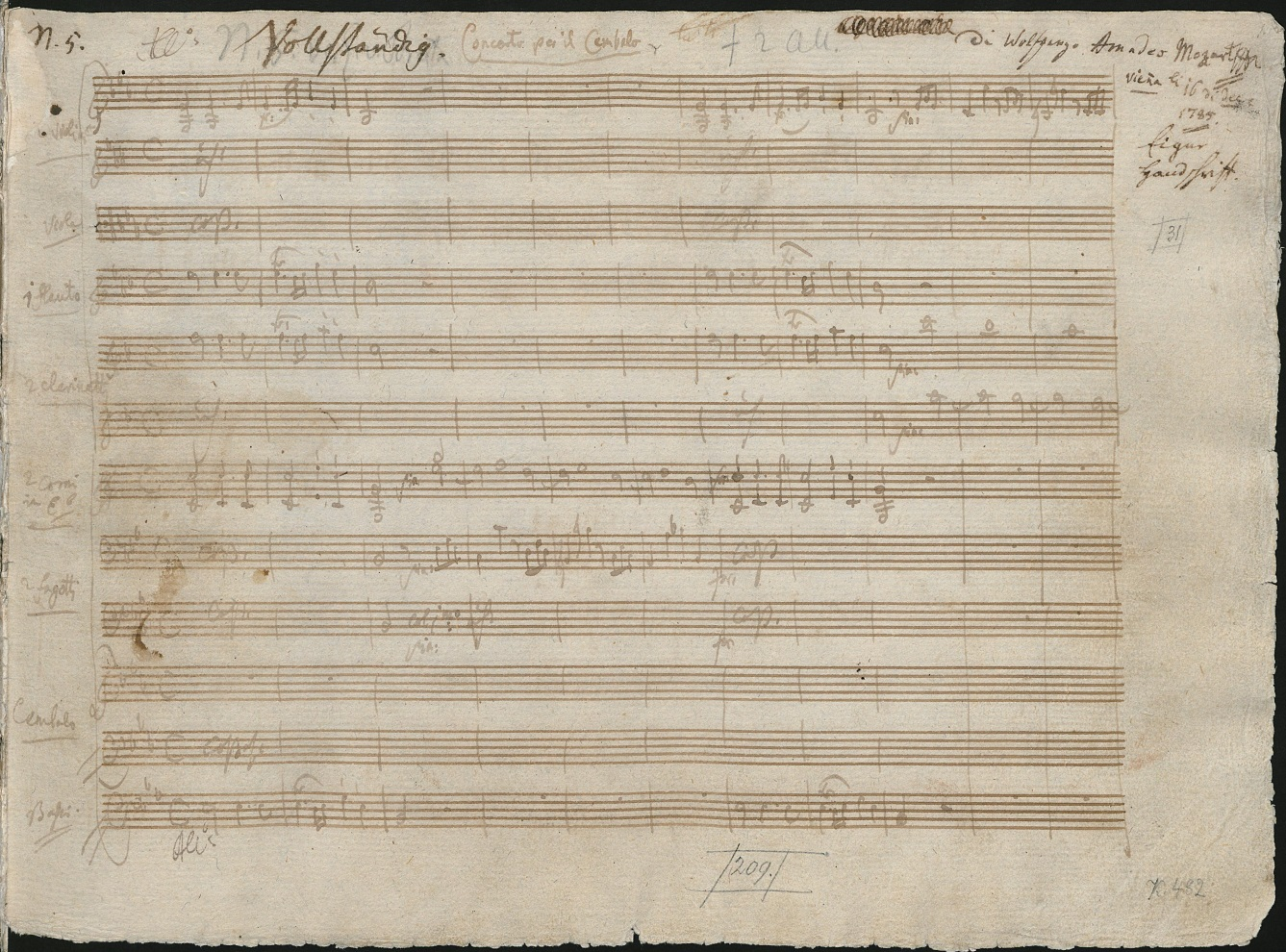 The opening page of the autograph manuscript of Mozart's Piano Concerto No. 22, K. 482, in Mozart's handwriting.